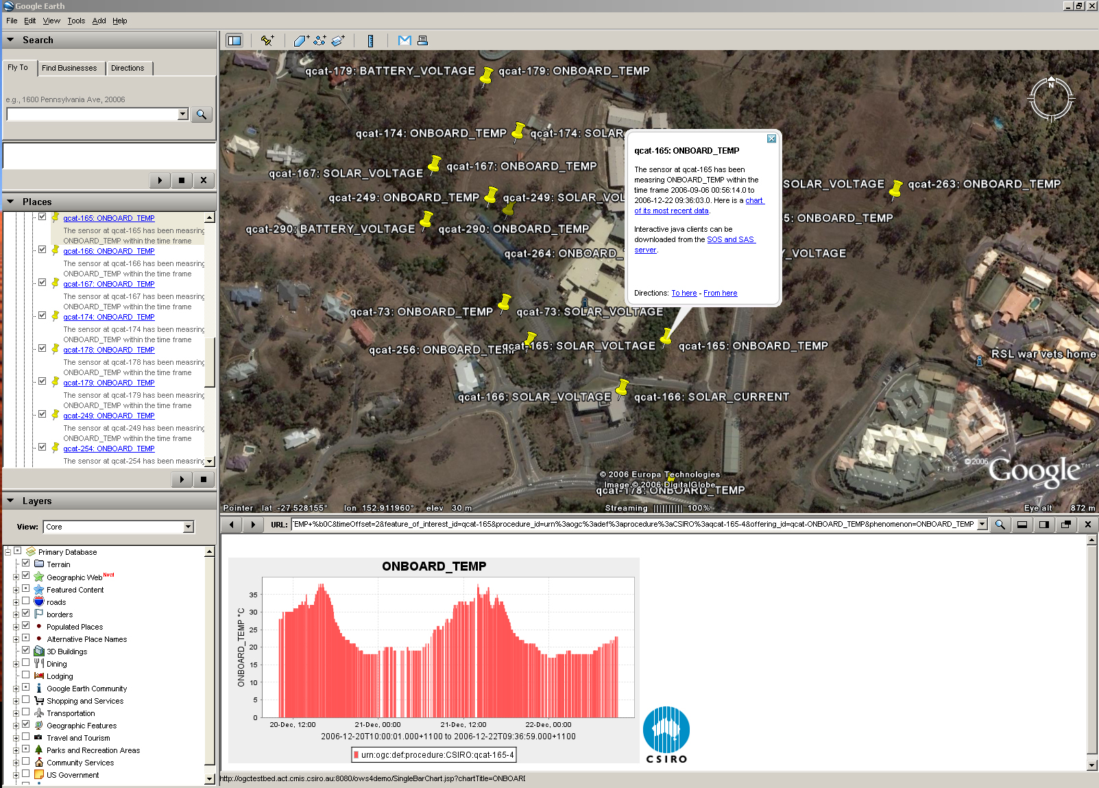 CSIRO researchers have taken part in an international demonstration of a key technology for monitoring Australia's scarce water resources. CSIRO's information interoperability technology was involved in the recent demonstration of how spatial information can address diverse community problems. In this case, the scenario was a mock terrorist incident in the United States, but the technology is equally applicable to monitoring water resources. Mr Gavin Walker, from the CSIRO ICT Centre, says the demonstration improved a set of Open Geospatial Consortium (OGC) specifications to provide access to multiple sources of geospatial information to assist decision making. "Spatial data and sensor technology have a wide range of applications, particularly in the environmental field," Mr Walker says. “This technology will improve our scientific understanding of Australia's scarce water resources and will revolutionise the way scientists gather data. “Wireless sensor networks act as 'macroscopes' allowing a study of environmental indicators, such as salinity, at a fine scale over a considerable area."